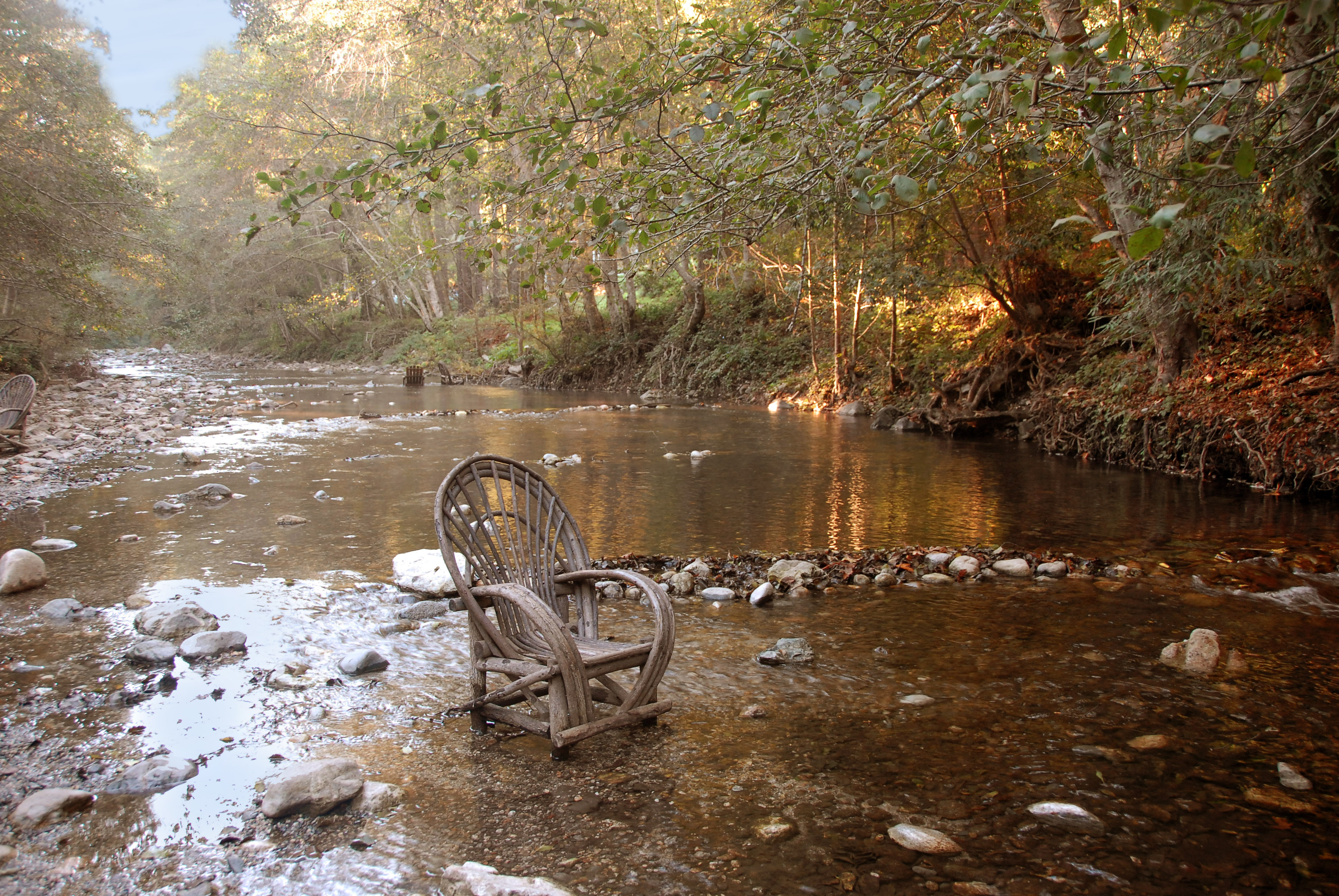 Big Sur river All Allong the CA 1